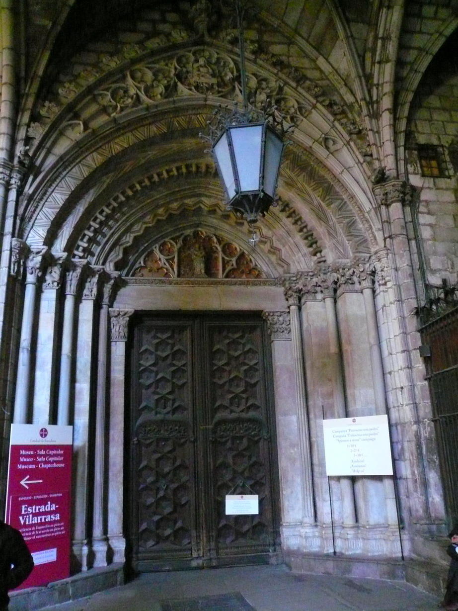 Cloister door, cathedral of Barcelona